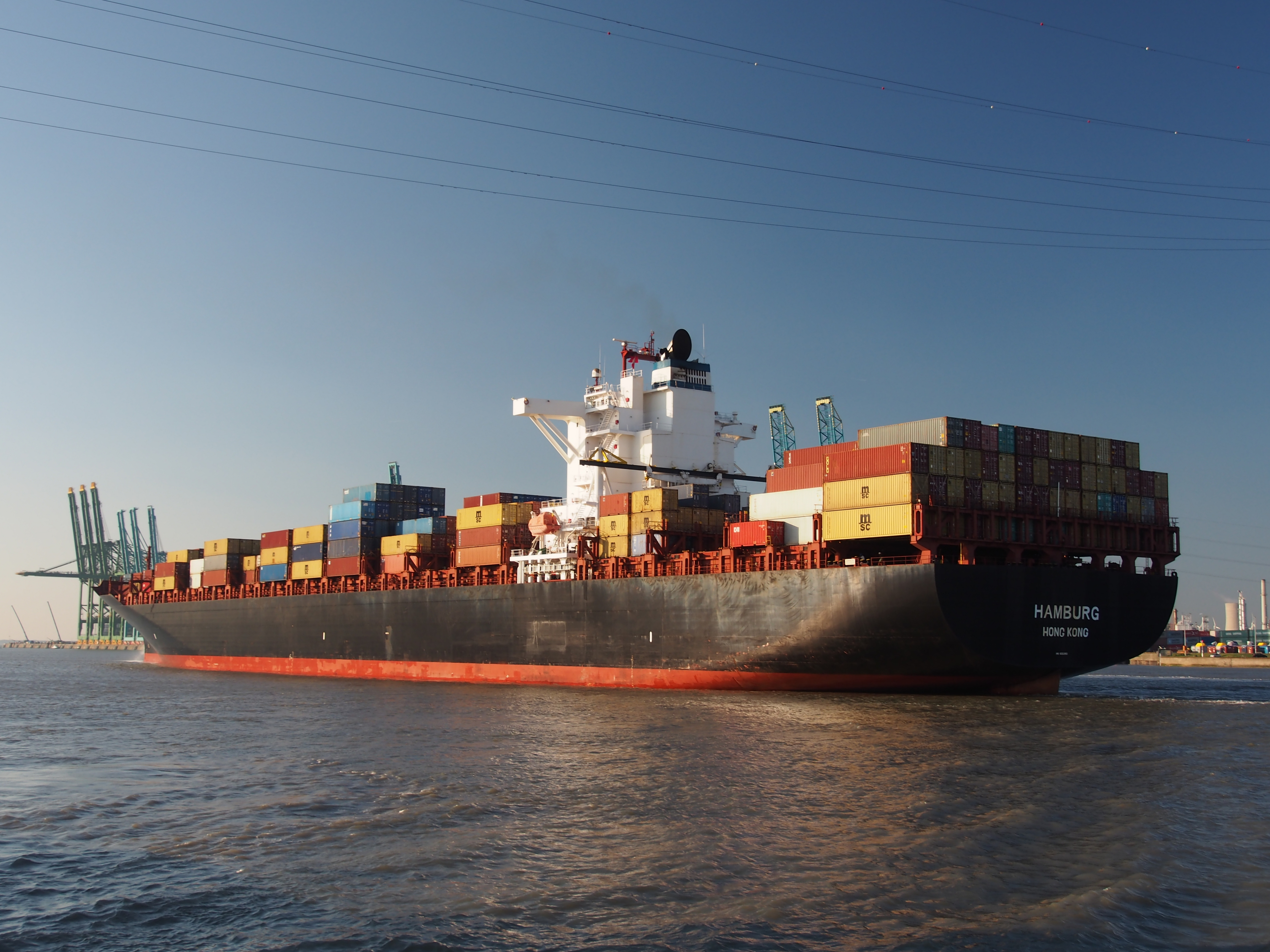 Photographed at Port of Antwerp, Belgium.